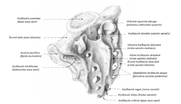 Picture shows dorsal surface of the sacrum and its parts in lithuanian and latin.